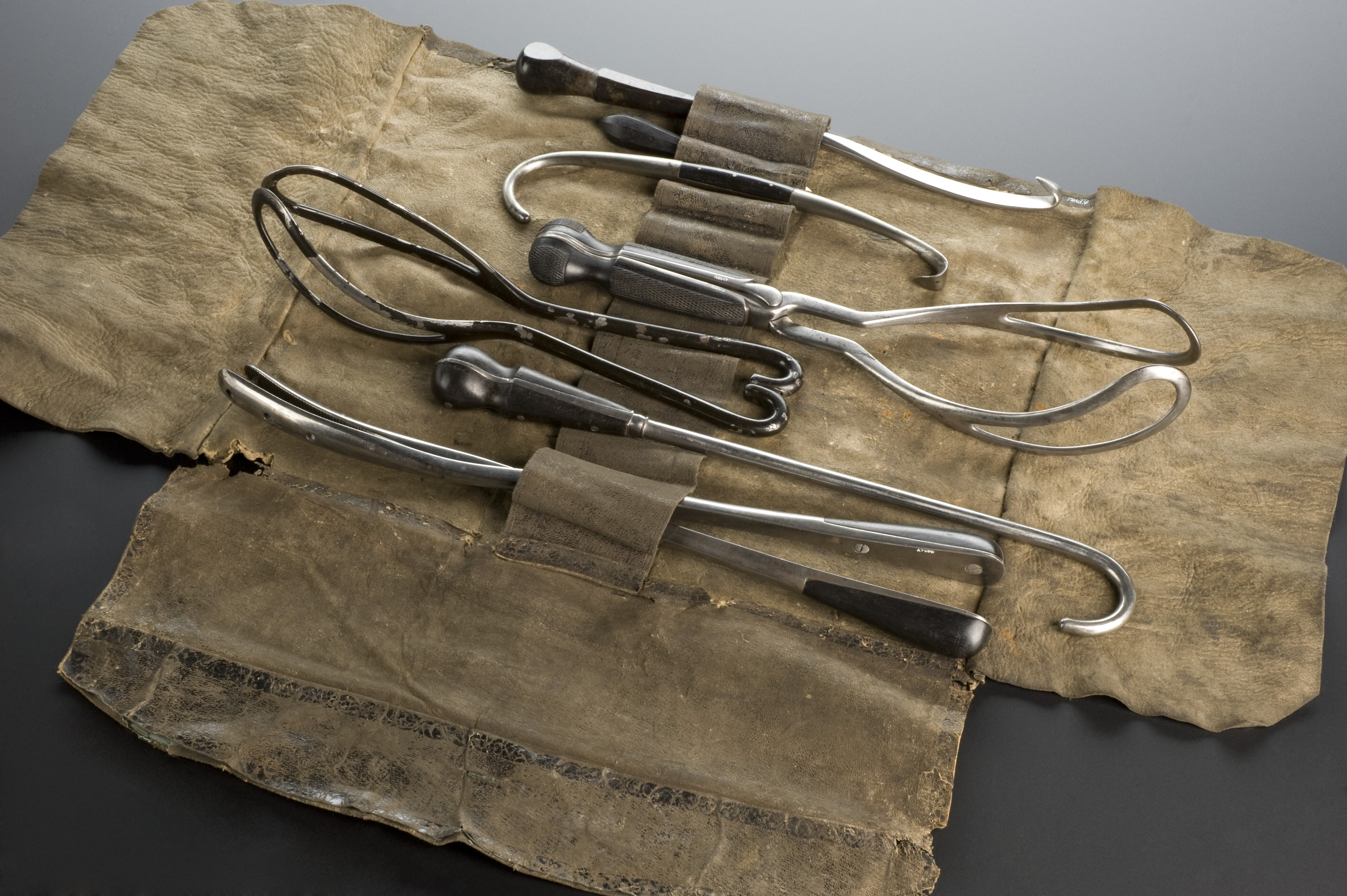 The instruments contained in this chamois leather bag belonged to an obstetric physician. They were used during childbirth. The full set consists of three sets of obstetric forceps, two perforators, one blunt hook, one crotchet, one combined hook and crotchet, one trocar and one pair of bone cutters. Some, such as the forceps, were standard delivery tools. Others, such as the perforators and trocar, were destructive tools. Most births during the 1800s were attended by women. These were usually relatives and a local midwife. Man-midwives, or obstetricians, were only called to the rich or when the lives of mother and baby were at risk. maker: Wood, maker: Fraser, M M P Place made: England, United Kingdom Medical Photographic Library Keywords: Obstetrics; compendium instrument